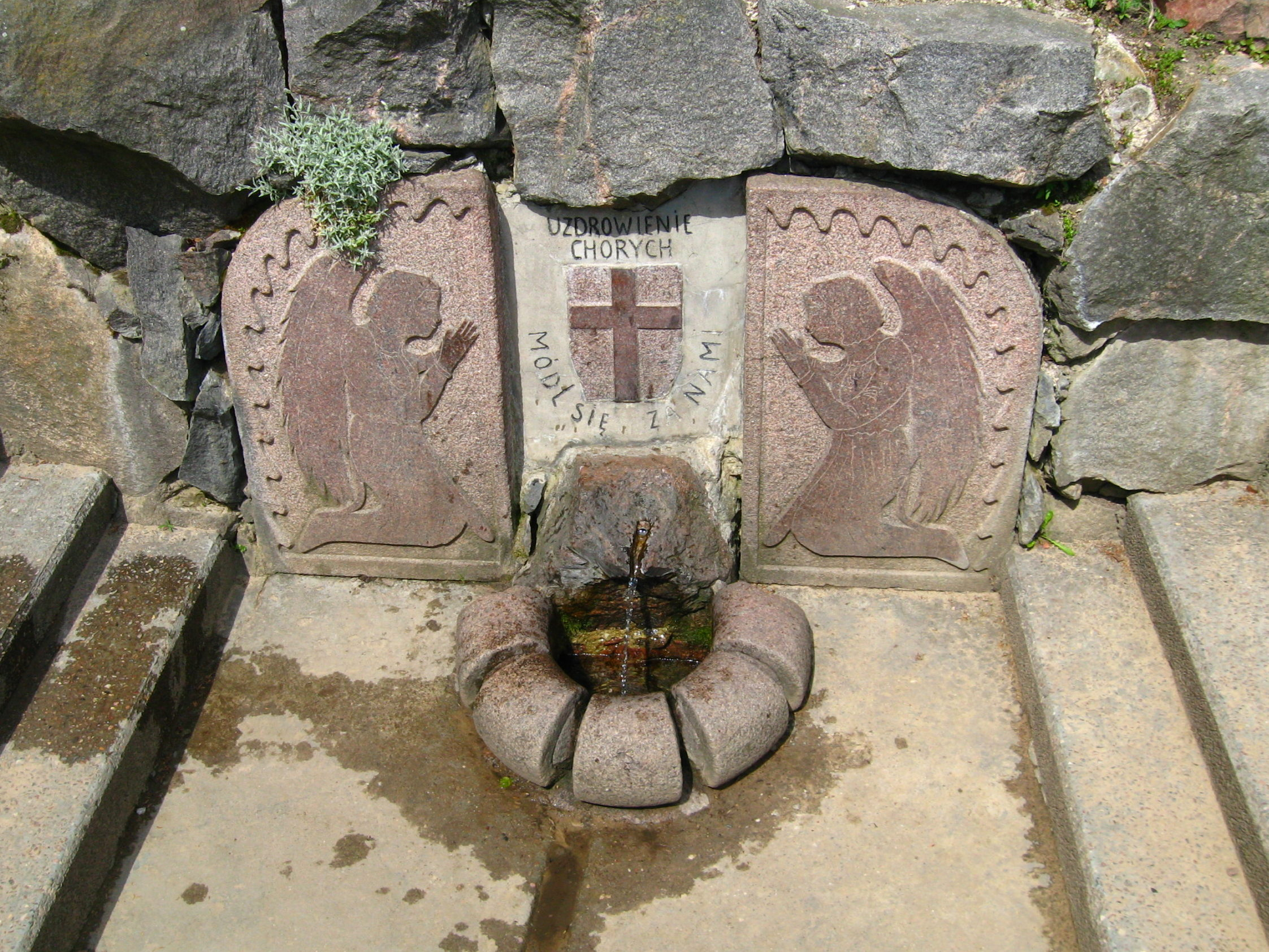 Spring regarded as holy at Święta Woda (Holy Water) sanctuary by Wasilków